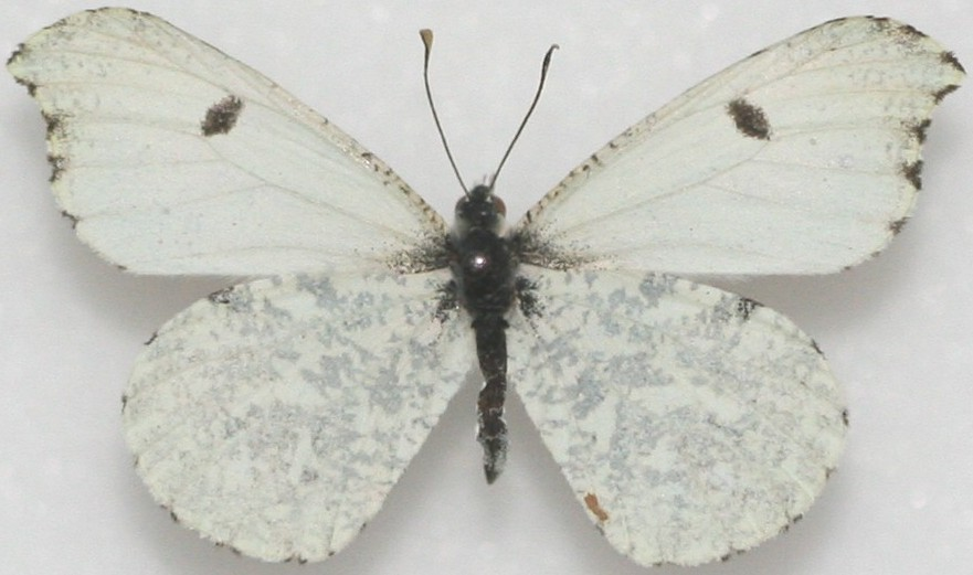 Female Falcate Orangetip, Anthocharis midea